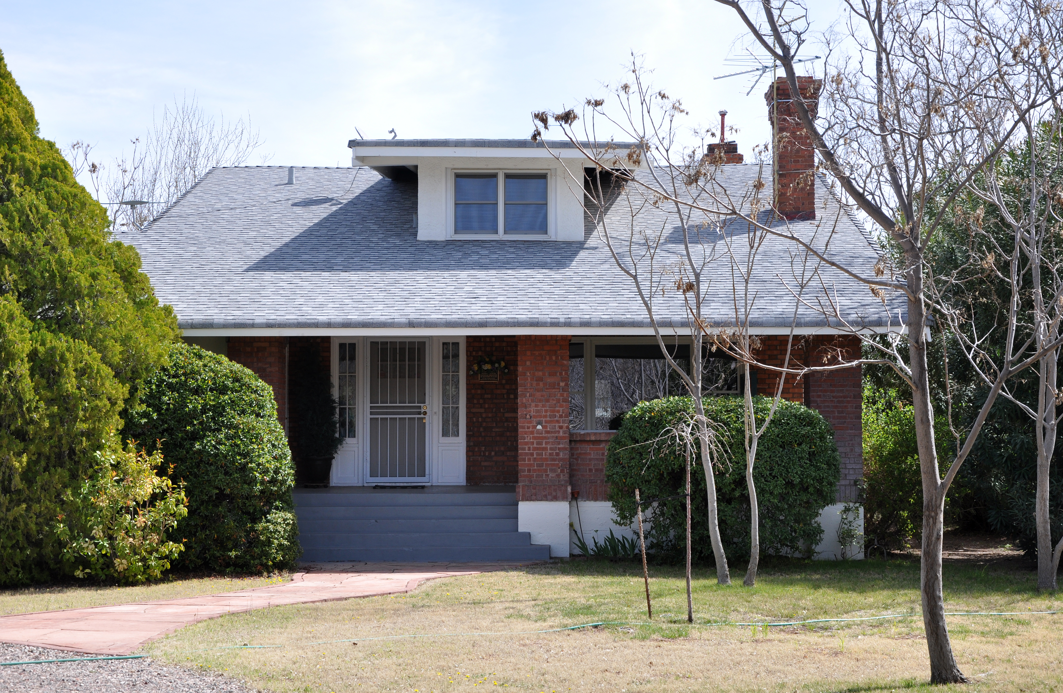 Master Mechanic's House at the former UVX smelter complex in Cottonwood in the U.S. state of Arizona.